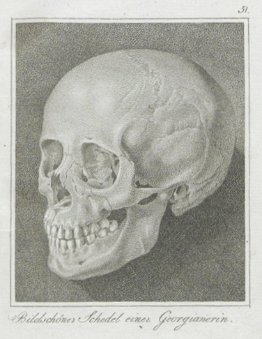 Engraving from Blumenbach’s Abbildungen naturhistorischer Gegenstände, part 6 (1802), nr. 51.